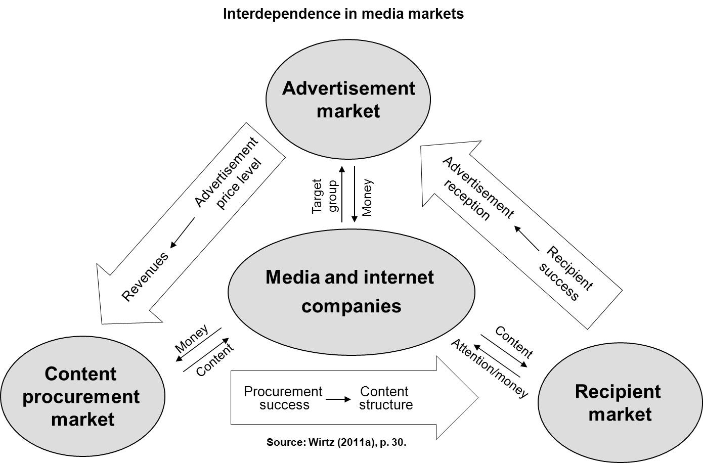 Image describes the interdependencies in media markets